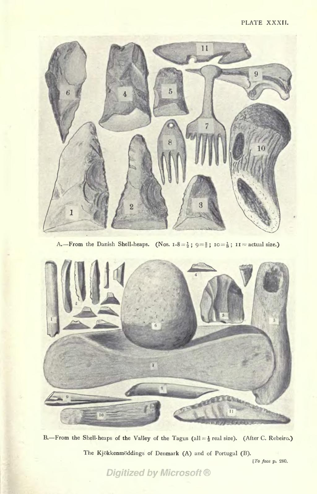 A.—From the Danish Shell-heaps. (Nos. 1-8 = ½ ; 9 ⅔; 10 = ⅓ ; 11 actual size.) B.—From the Shell-heaps of the Valley of the Tagus (all = ½ real size). (After C. Rebeiro.) The Kjökkenmöddings of Denmark (A) and of Portugal (B). [To face p. 280.